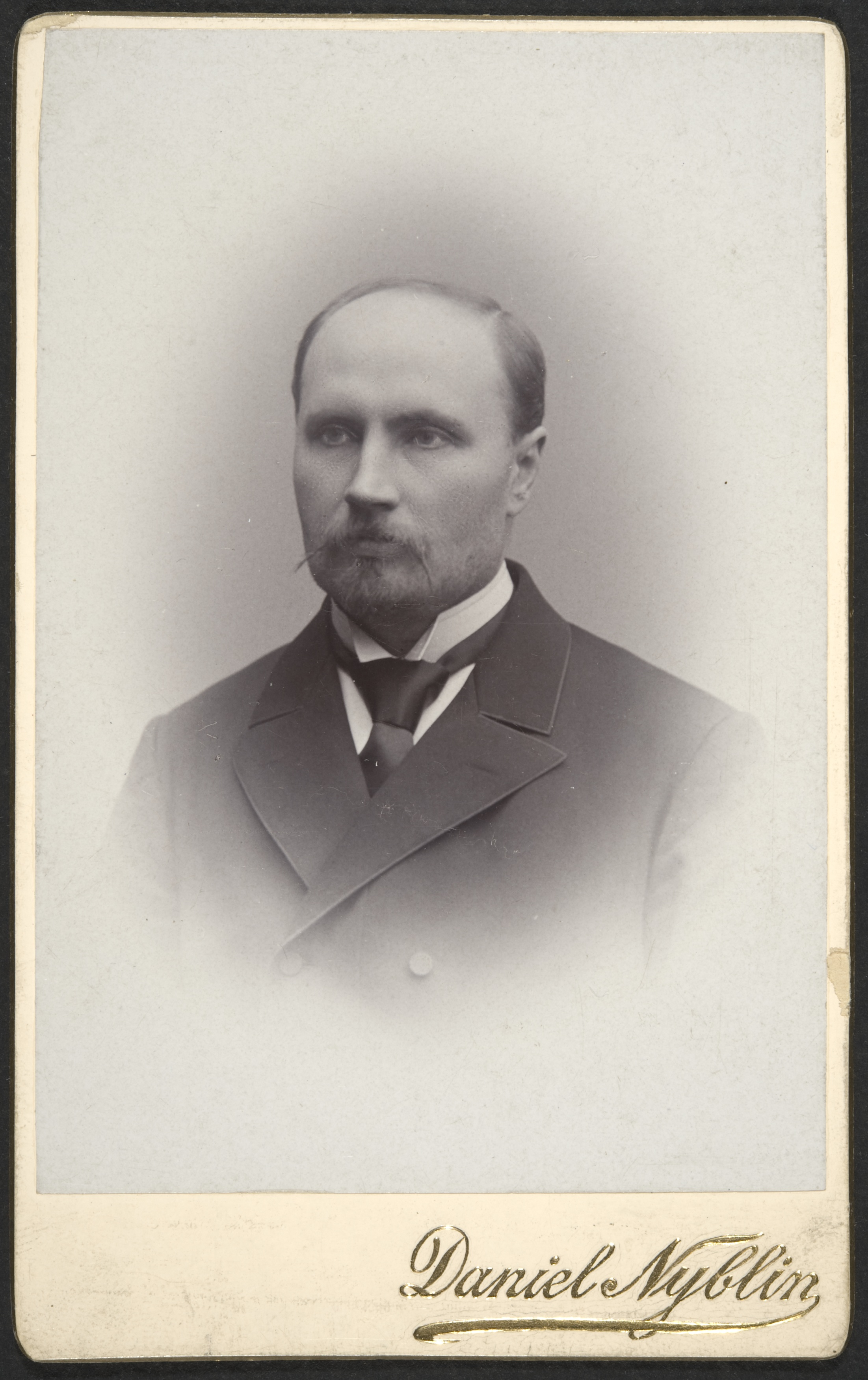 Photograph of the Finnish physician Jaakko Karvonen (1863–1943).